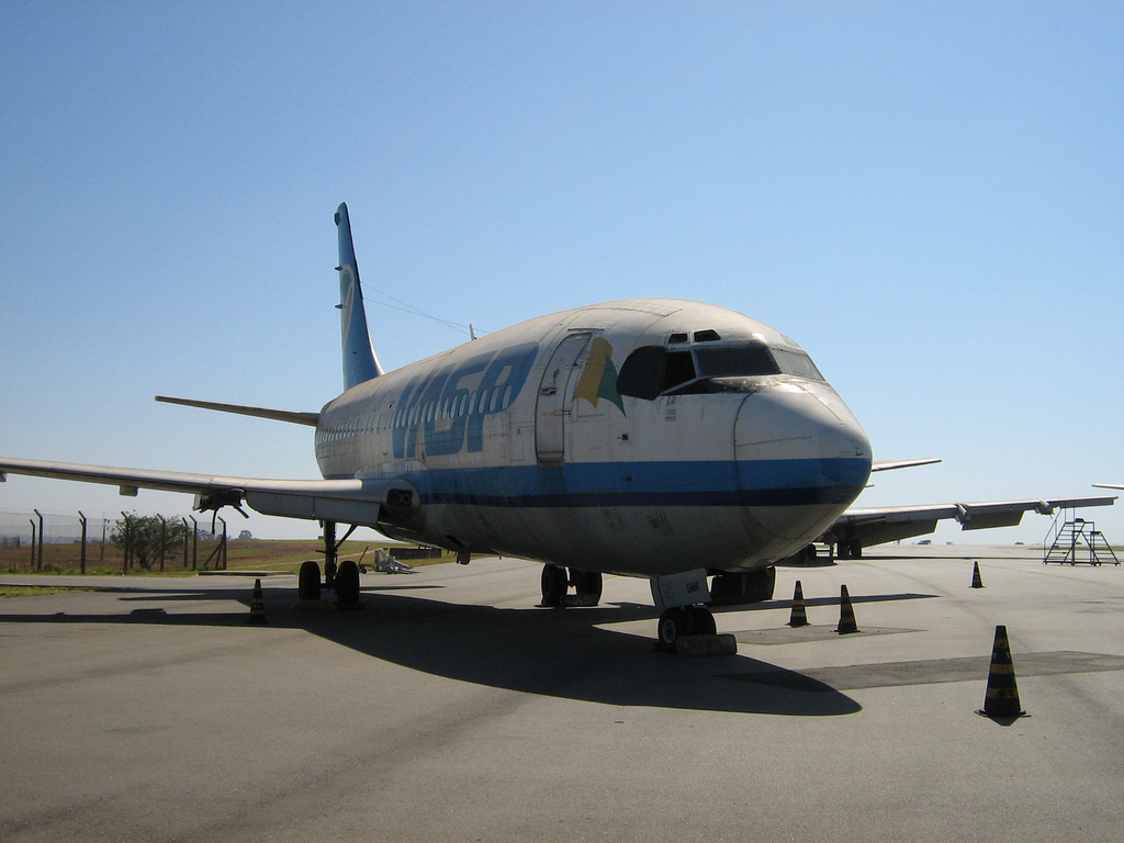 stabled VASP 737-200 without engines